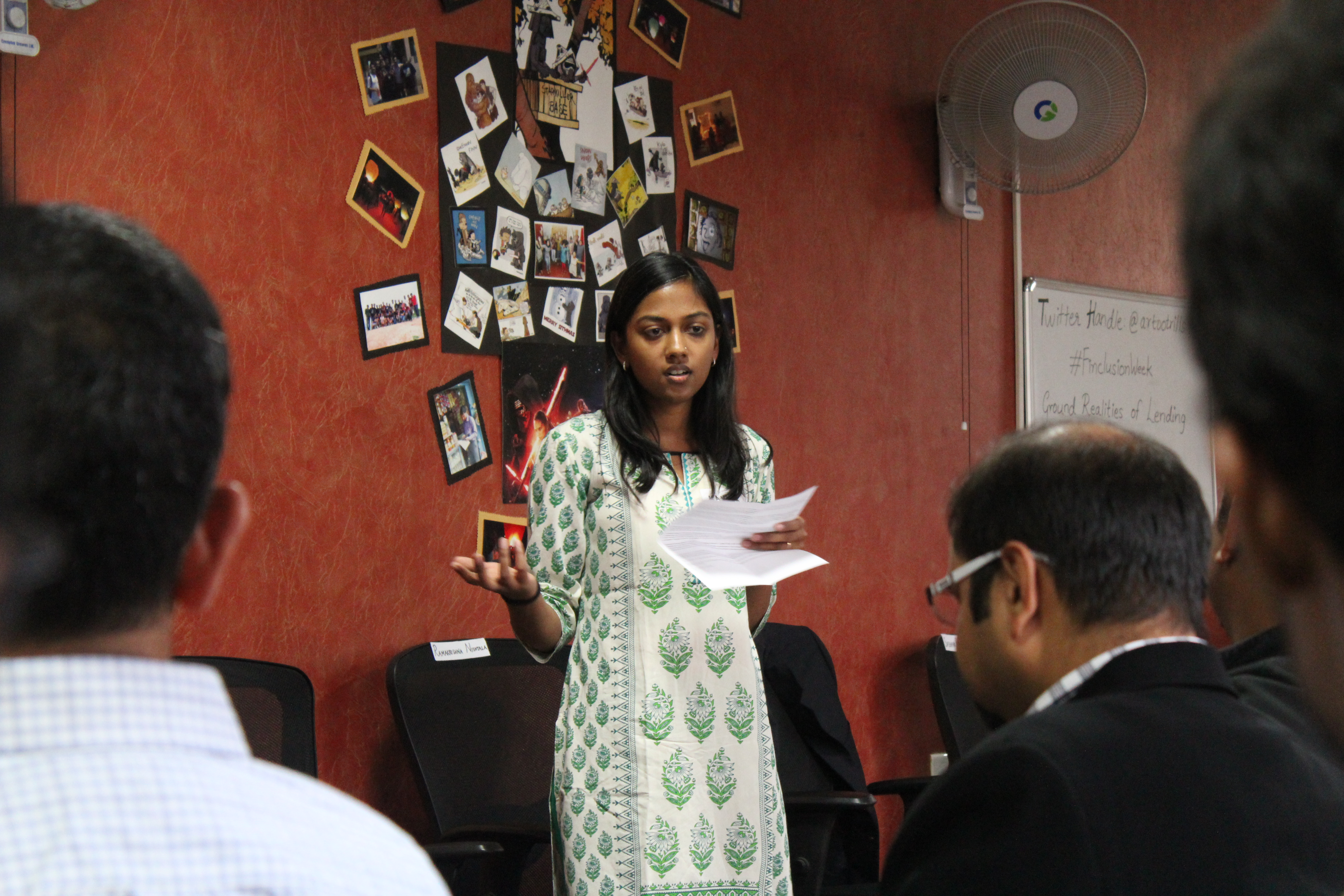 Kavita at Artoo's Panel Discussion on Ground Realities of Lending to Small Enterprises.